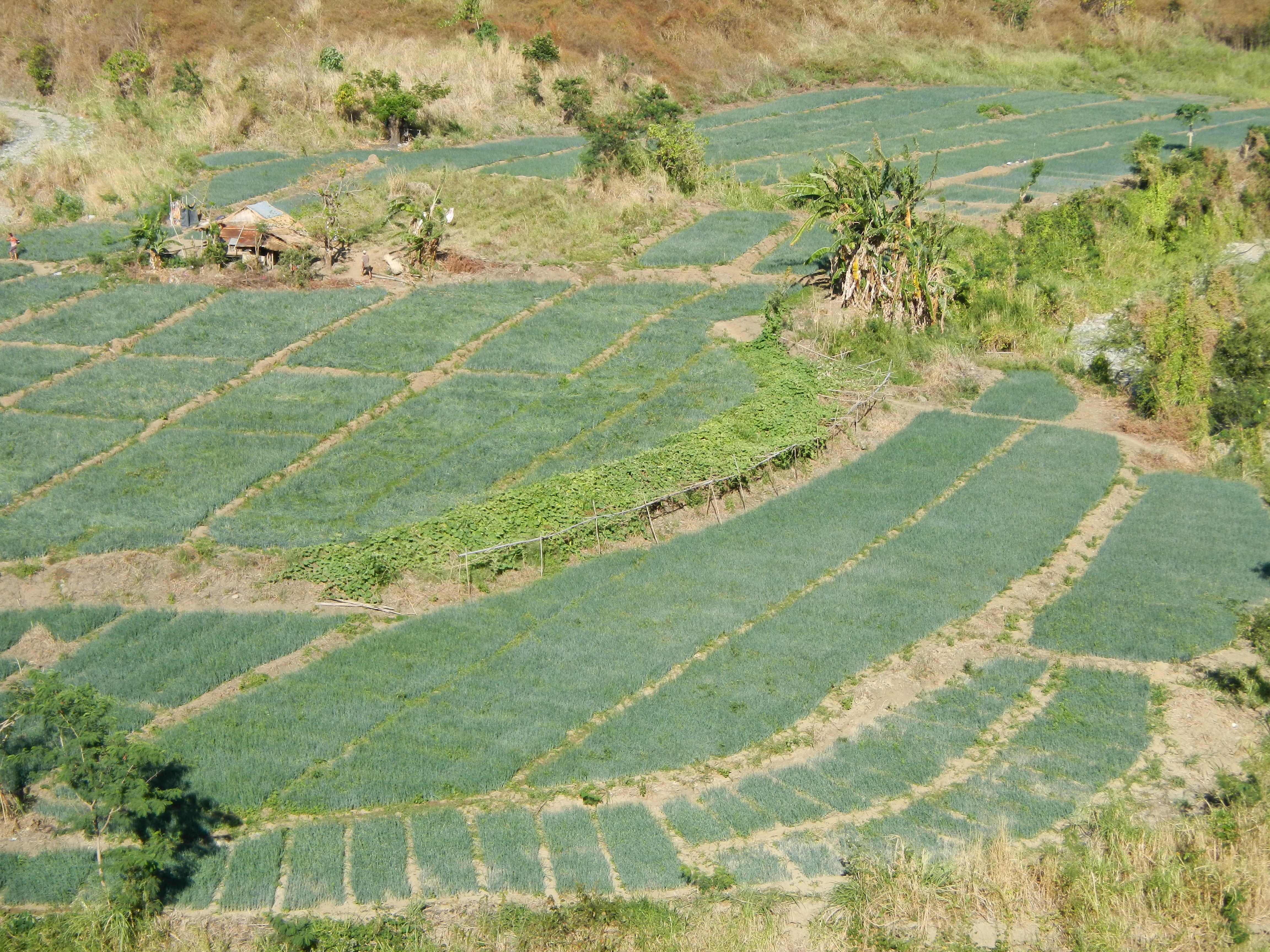 Pantabangan, Nueva Ecija[1] [2]Land Area: 392.56 km² ZIP Code: 3124 Coordinates: 15°49'22"N 121°9'22"E[3][4] Mayor Romeo V. Borja, Sr. V.Vice-Mayor,Romeo Jr R. Borja.[5] Landmarks: St. Andrew the Apostle Parish Church of Pantabangan, Old and New Town Hall, Onion plantations; The serene blue-sky glimpses the 1.61 kilometer long dam enveloped by the picturesque view of Sierra Madre Mountains. The dam's clear water with an average yearly in the sanctuary of tropical marine life and an inviting site for jetskiing and fishing. Pantabangan offers not only its enormous man-made lake but also its guesthouse, the Best View Hotel and Restaurant. With its Spa and Beauty Cottage Salon, swimming pool, tennis courts and water sports amenities, the tourists and guest enjoy the luxury and beauty of the placid scenery of the dam. [6][7] [8]First Gen Hydro Power Corporation (FG Hydro) owns and operates the Pantabangan-Masiway Hydroelectric Complex (PMHEP). The Pantabangan and Masiway plants are cascading hydroelectric power plants located in Nueva Ecija. Commissioned in 1977 and 1981, respectively, the Pantabangan and Masiway plants are part of a multipurpose hydro complex that supplies irrigation water for the vast rice fields of Nueva Ecija.